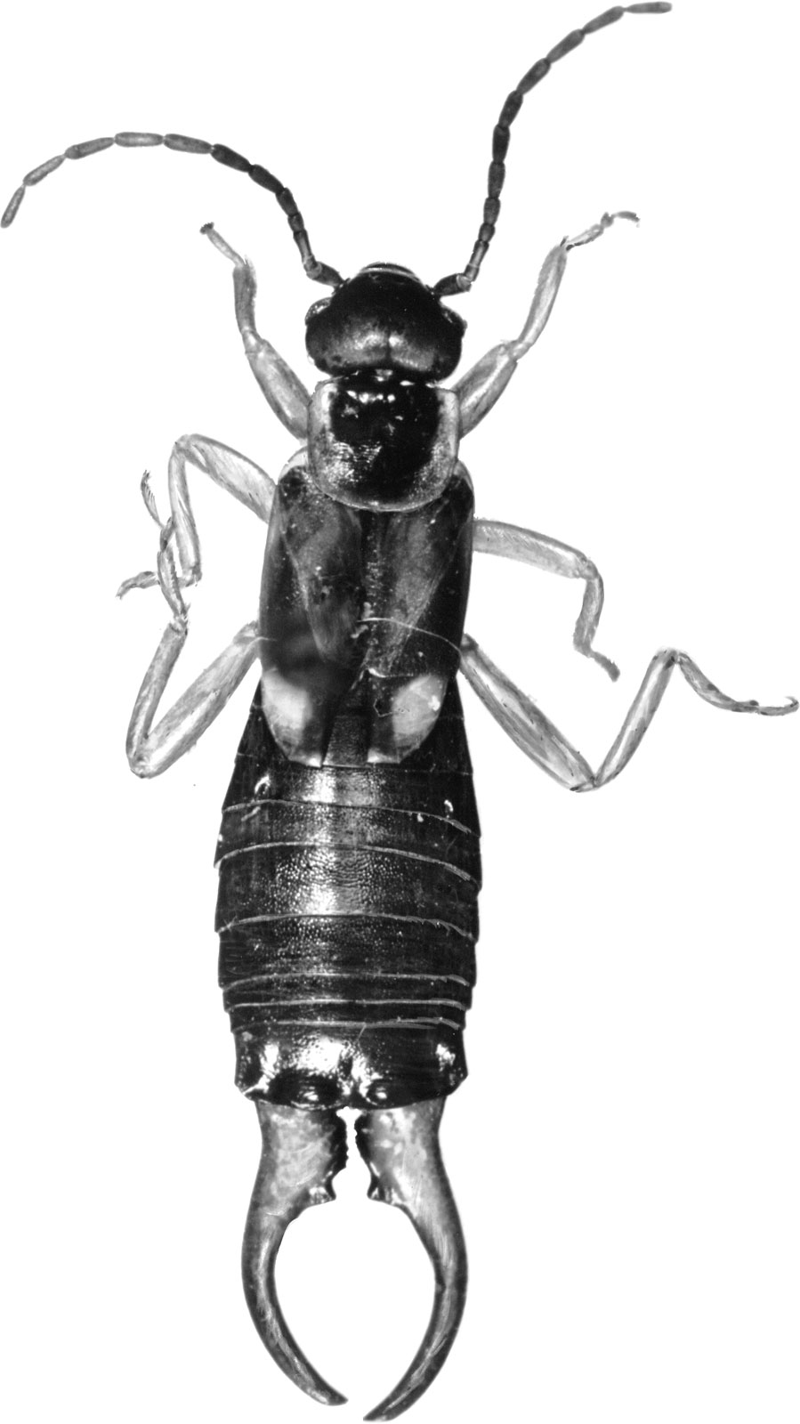 A male European earwig (Forficula auricularia). USDA.